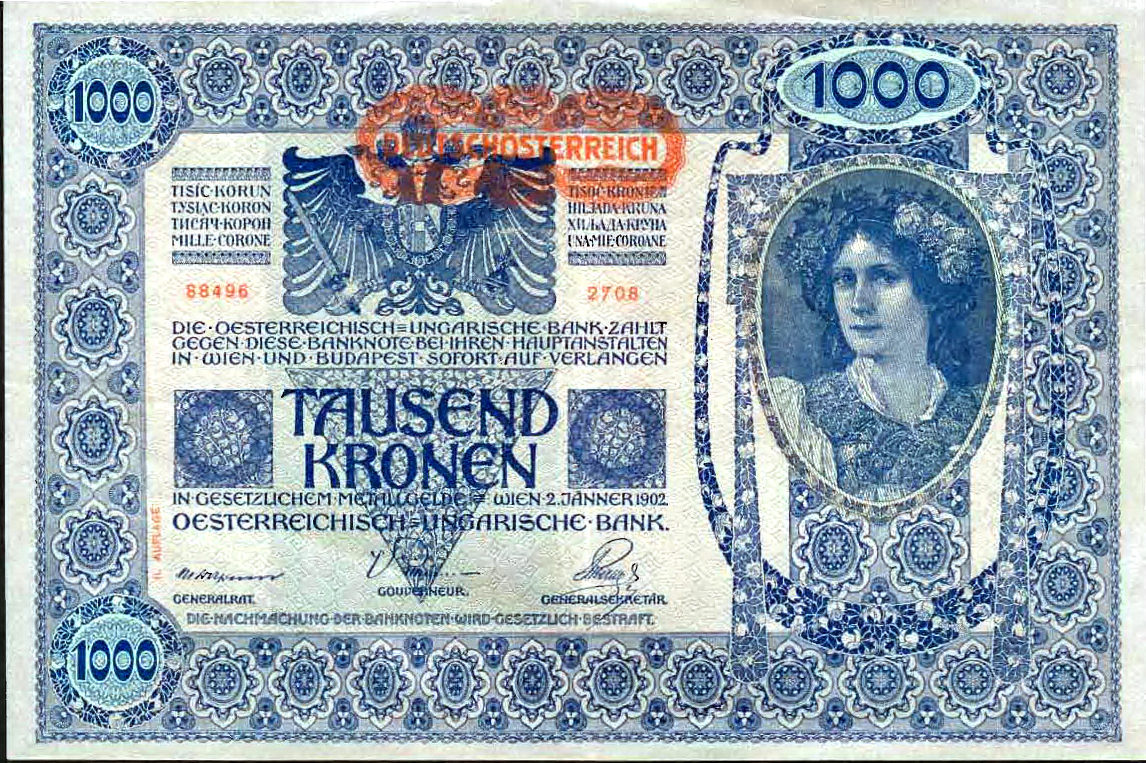 Austro-Hungarian banknote 1000 Kronen from 1902, II. AUFLAGE. Overprinted in red "Deutschösterreich". - frontside